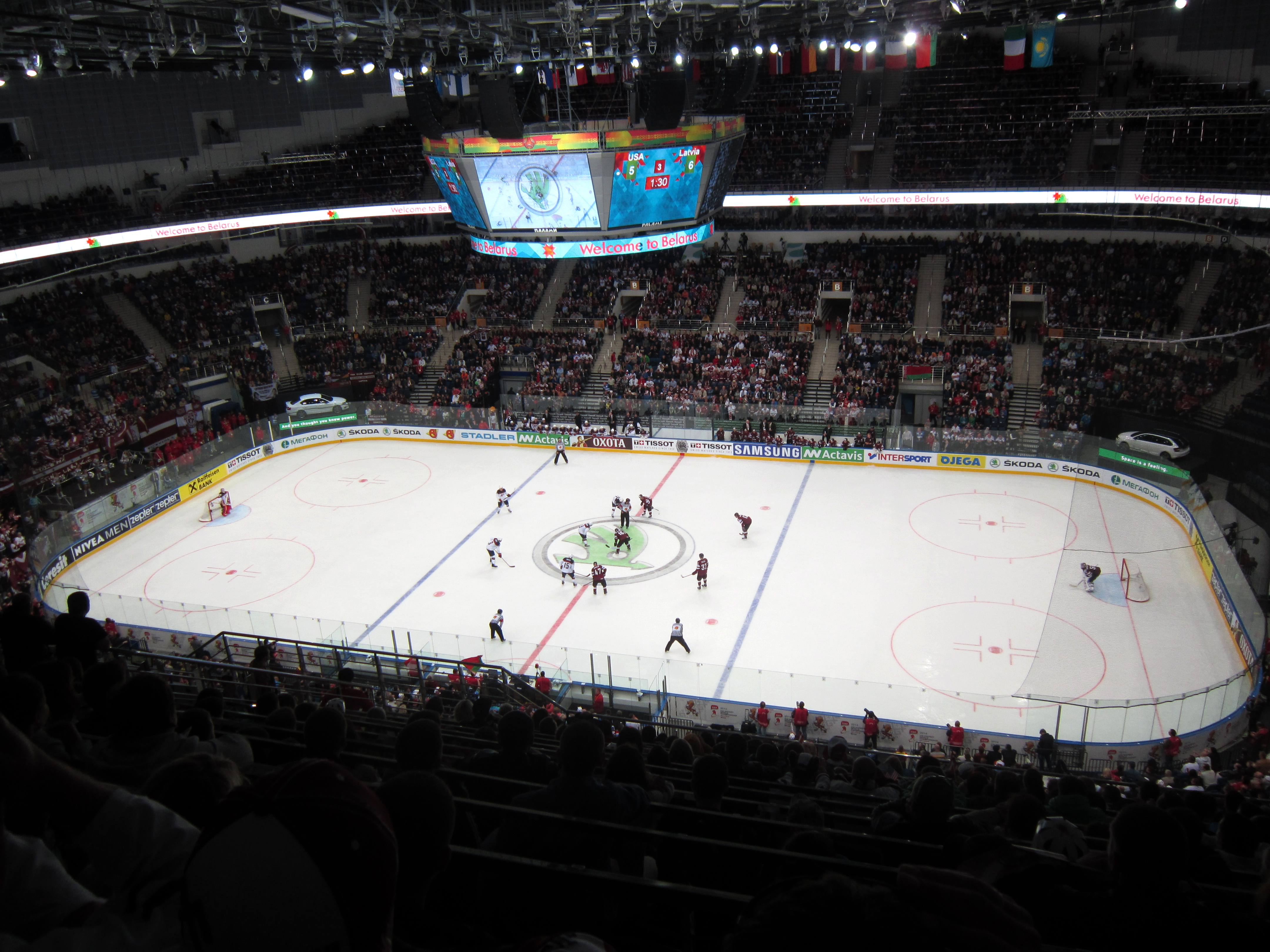 Game USA—Latvia (IIHF World Championship 2014, Minsk, Belarus). Face-off after USA's fifth goal (score 5:6)